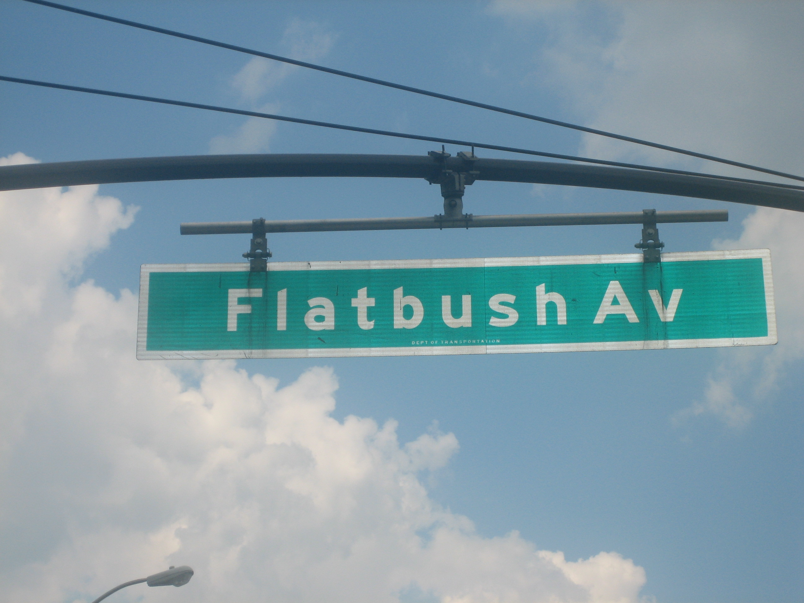 I took photo on July 8, 2007.Billy Hathorn (talk) 14:05, 27 June 2008 (UTC)